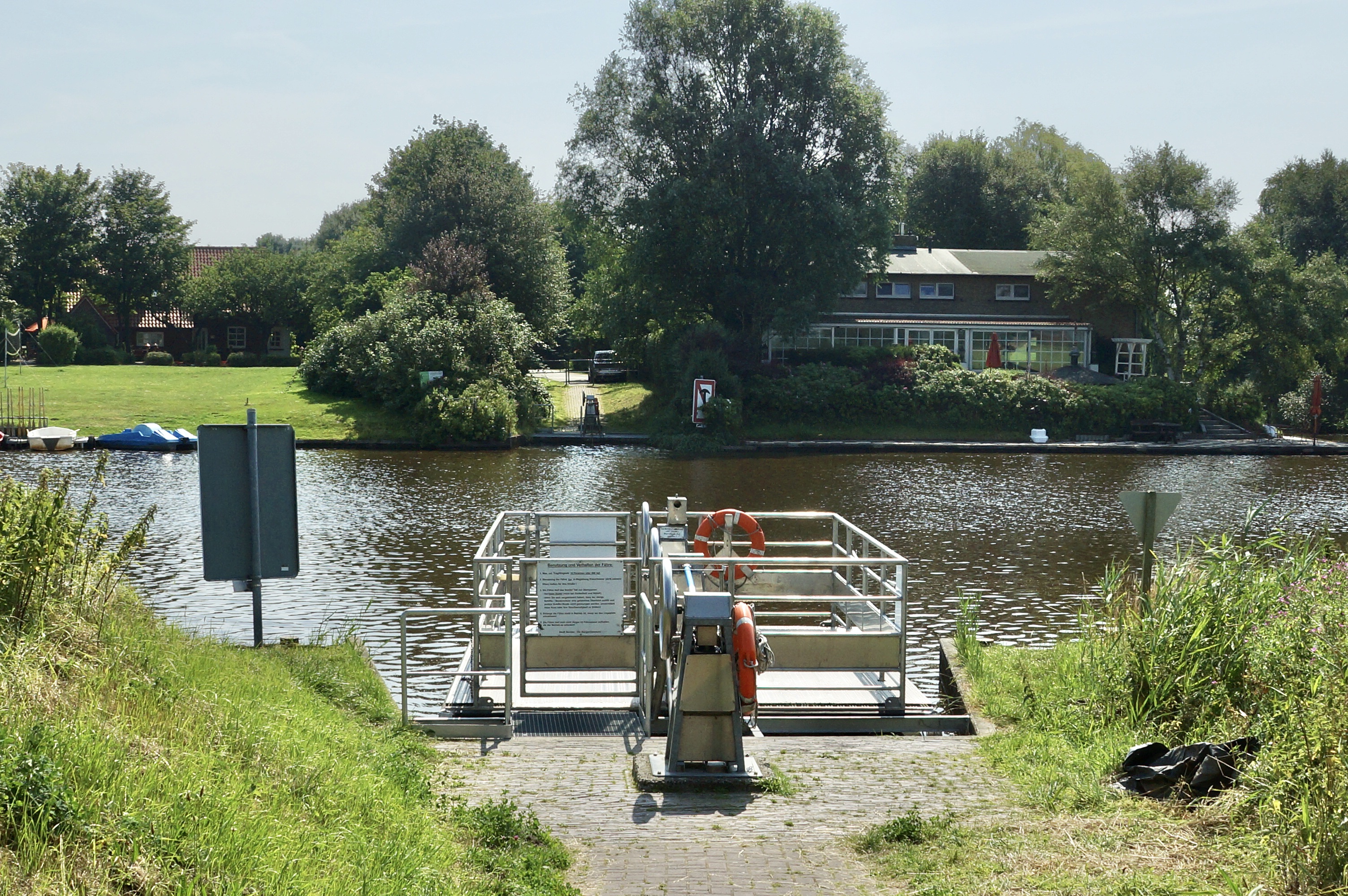 Neuwesteel (Norden), Germany: Ferry on the Norder Tief